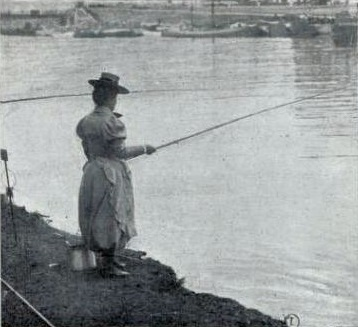 Madame B., angler during the 1900 Olympic games, Paris